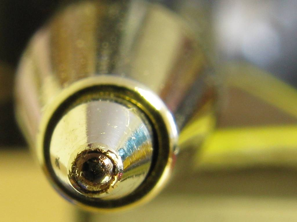 A close-up photograph of the tip of a ball-point pen.